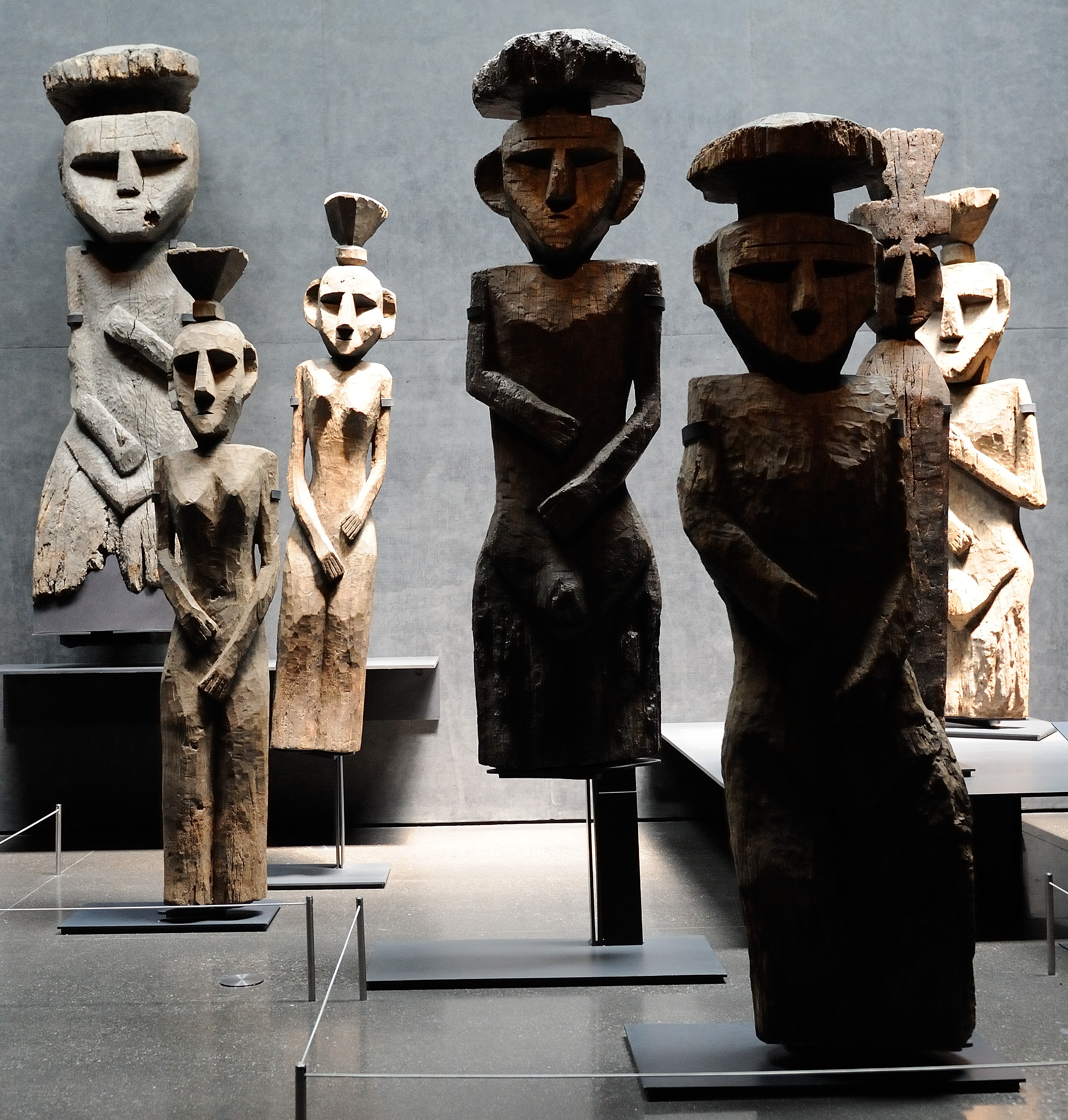 These sculptures adorned ancient Mapuche tombs, and were intended to serve as spirit guides in the afterlife. I'll now quote directly from the plaque accompanying these sculptures, 'cause you won't believe the last part if I don't: 'Chiefs and great warriors were sent to the East after death, to roam among the volcanoes of Kalfumapu, the “blue land.” All others went to the West, to eat bitter potatoes beyond the sea.'